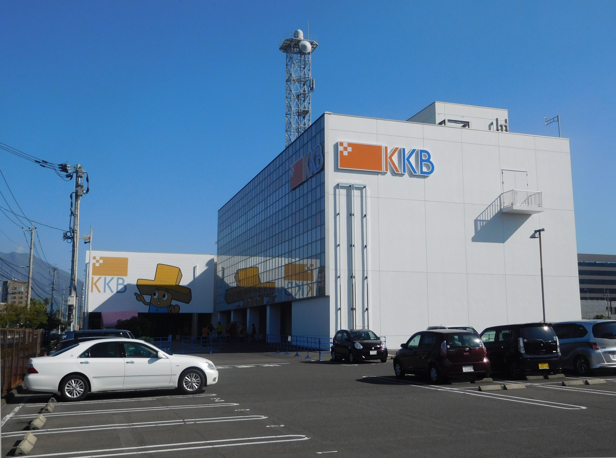 Headquarters of Kagoshima Broadcasting (KKB), located in Yojiro,Kagoshima City, Japan.